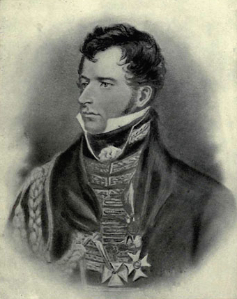 Sketch of Colonel William Howe DeLancy